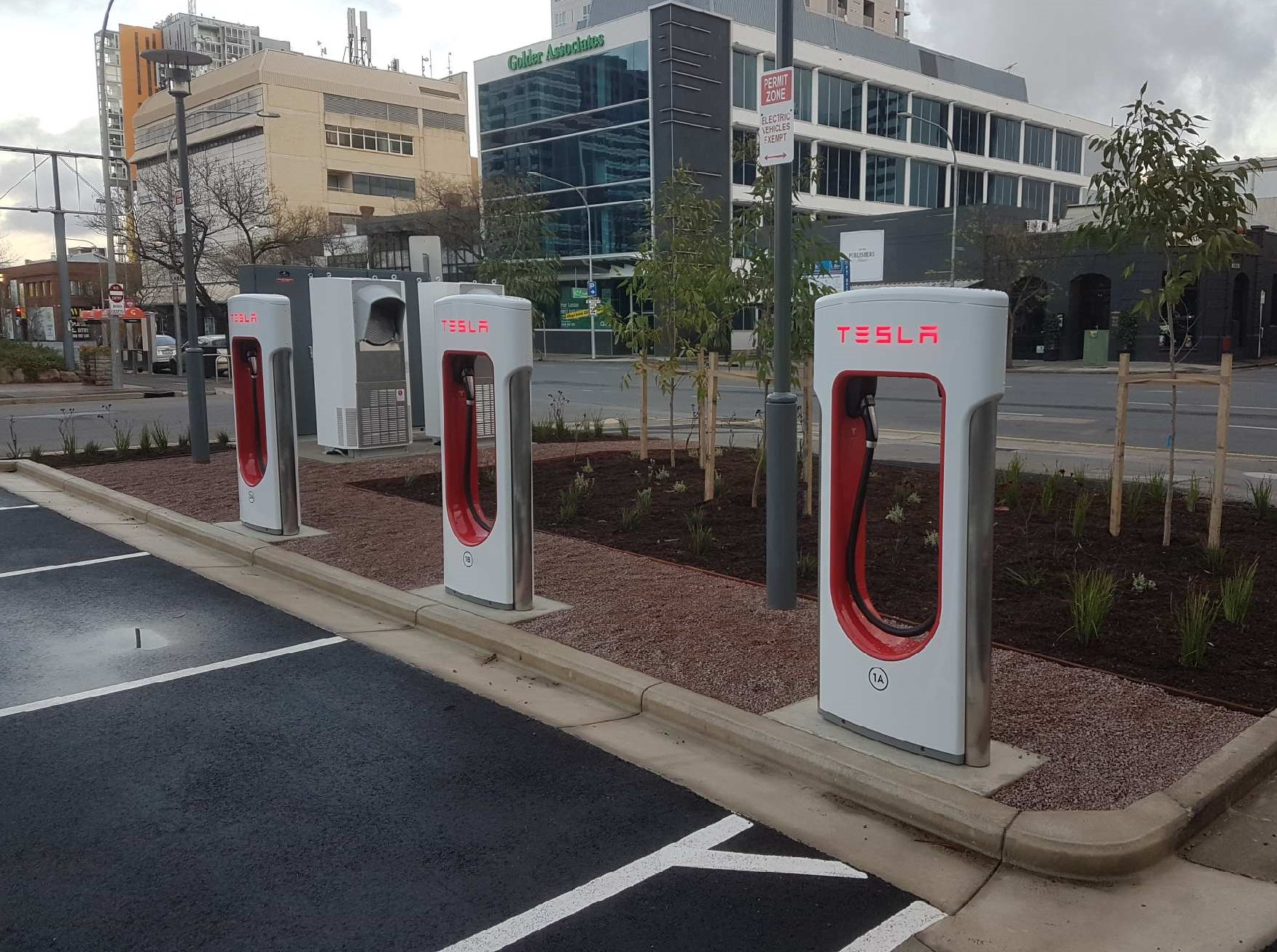 The first Tesla Superchargers (also with generic electric car chargers) to be rolled out and installed in South Australia, pictured on Franklin Street, Adelaide, available to the public from 28 September 2017, completing an Australian Tesla charging network that stretches as far as the Queensland capital over 2,000 km (1,200 mi) away. One 30 minute quick charge of a Tesla Model S or Tesla Model X yields an approximate driving range of 270 km. for more information.